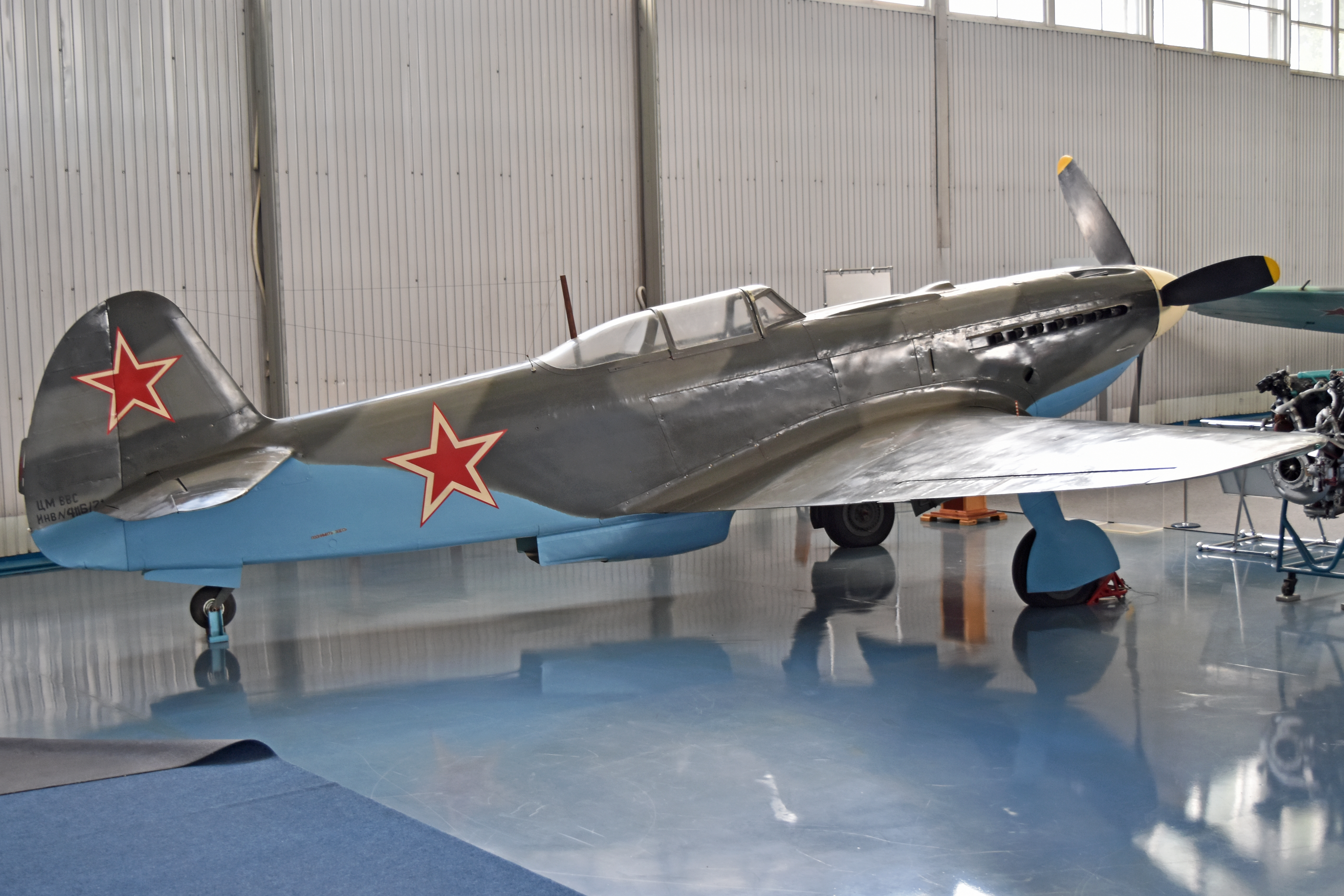 c/n 1257. The U was the definitive variant of the Yak-9. It had the 1,650hp Klimov VK-107A engine and in early 1943 the prototype reached 435mph, which was remarkable for the time. This genuine 1944 example was exported to the Bulgarian Air Force after WW2 but in the late 1970’s it returned to Yakolev and was restored for static display at Monino. Handed over in January 1980, it is currently in Hangar 6A, which is the first new hangar near the entrance. Central Air Force museum, Monino, Moscow Oblast, Russia. 27th August 2017